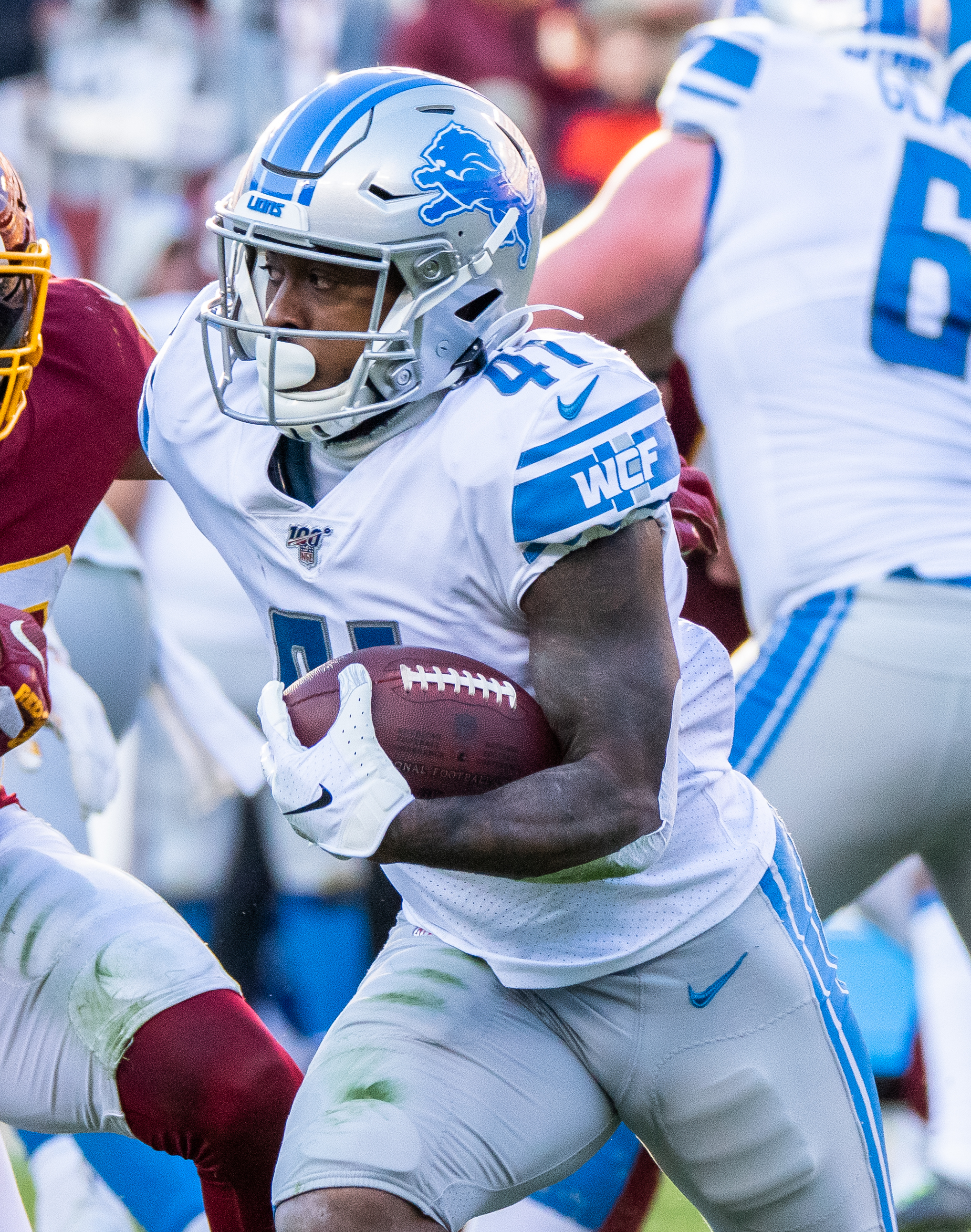 In 2019